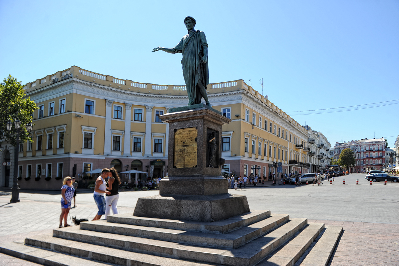 Monument to the founder of the city of Rishile